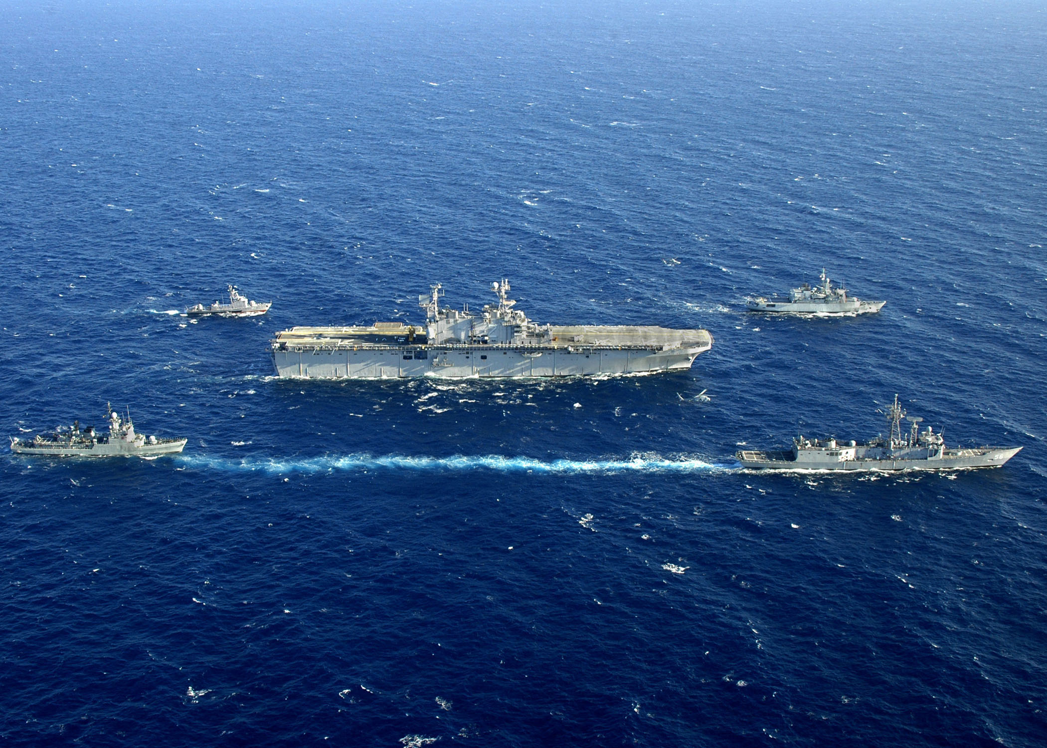 Mediterranean Sea (June 4, 2006) - The five ships participating in exercise Phoenix Express 2006, amphibious assault Ship USS Saipan (LHA 2), guided-missile frigate USS Simpson (FFG 56), Armada Espanola Infanta Elena (P-76), Royal Moroccan Navy Frigate Mohammed V (611), and Algerian Naval Forces El Kirch (353) sail in formation in the Mediterranean Sea. Exercise Phoenix Express will provide U.S. and allied forces an opportunity to participate in diverse maritime training scenarios helping to increase maritime domain awareness and strengthen emerging and enduring partnerships. U.S. Navy photo by Photographer's Mate 3rd Class Gary L. Johnson III (RELEASED)